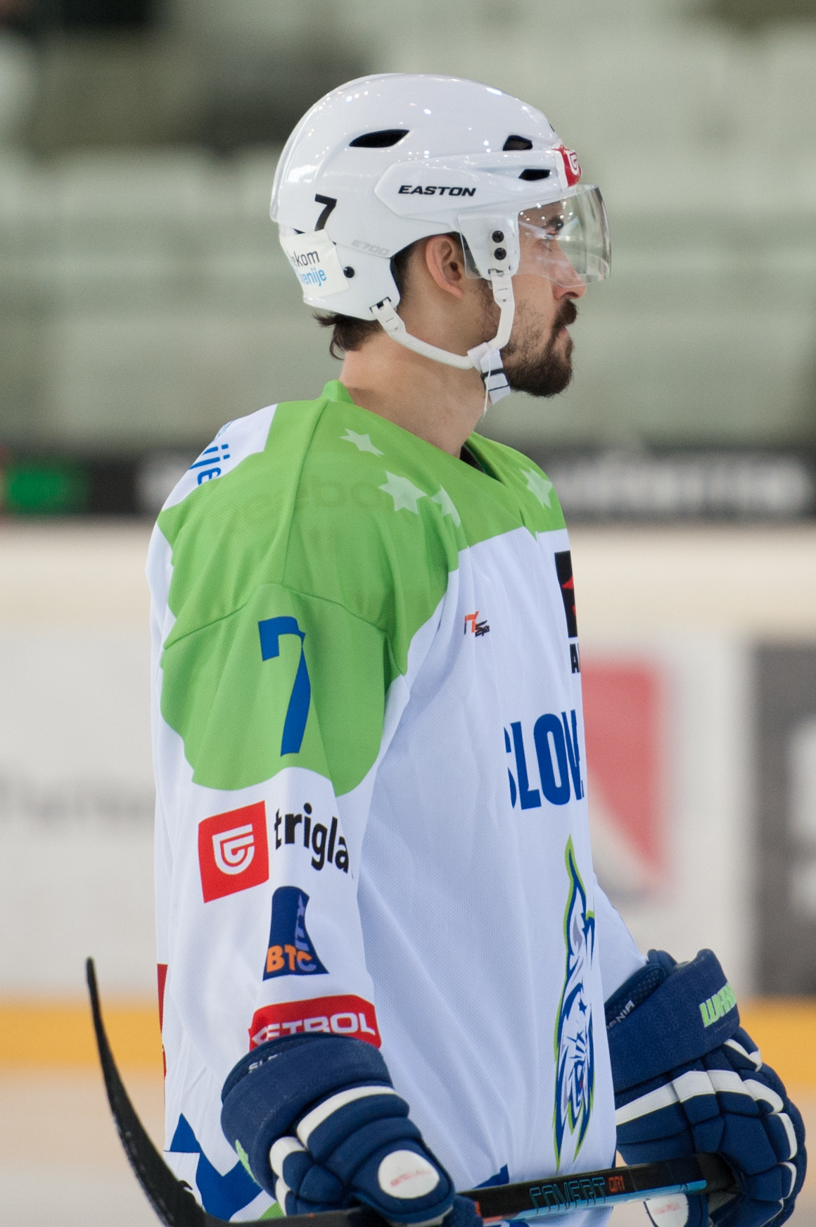 Euro Ice Hockey Challenge Vienna, February 7, 2015, Italy vs. Slovenia